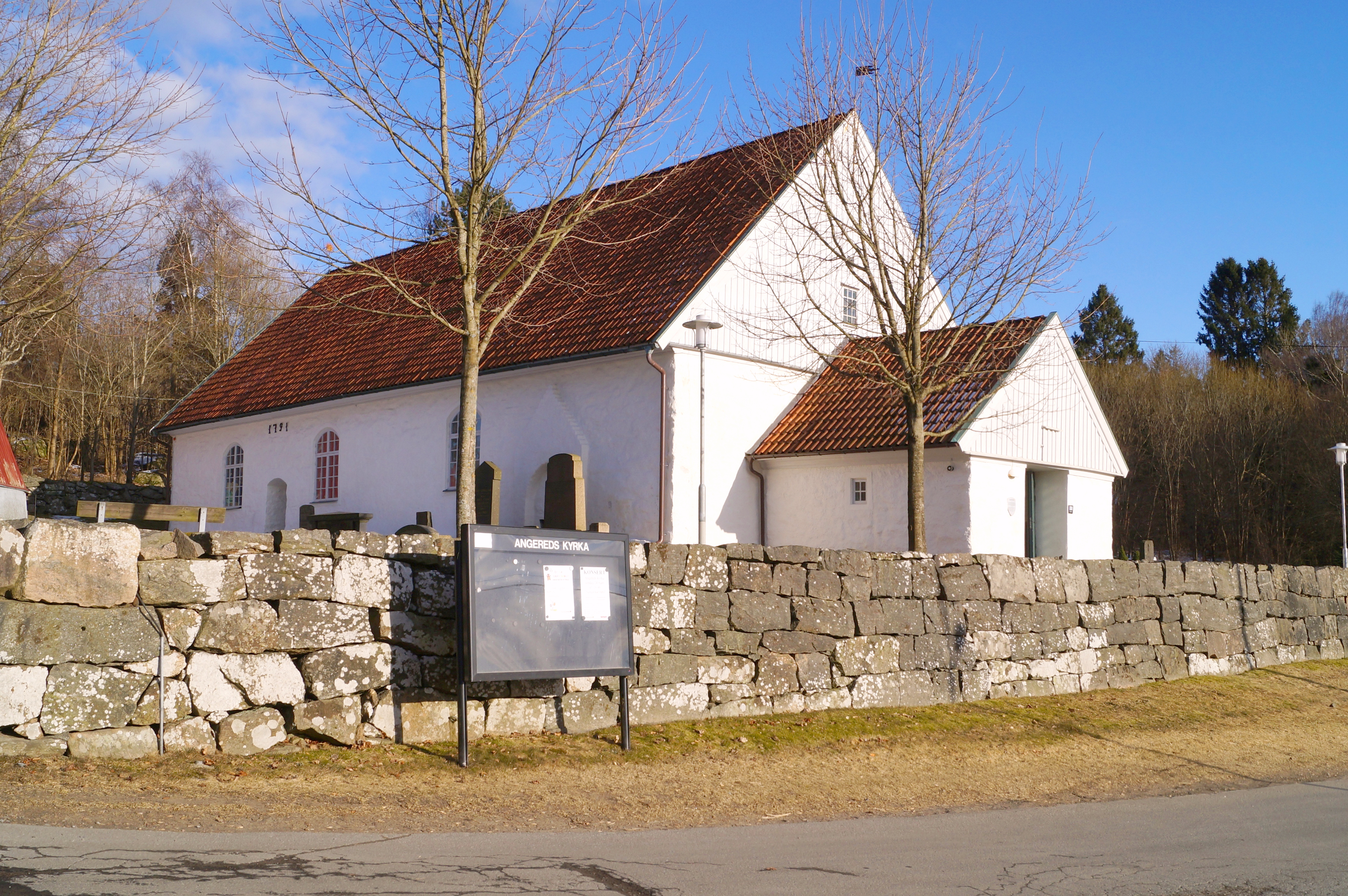 Angered Church V. Gotaland Sweden (Gothenburg)